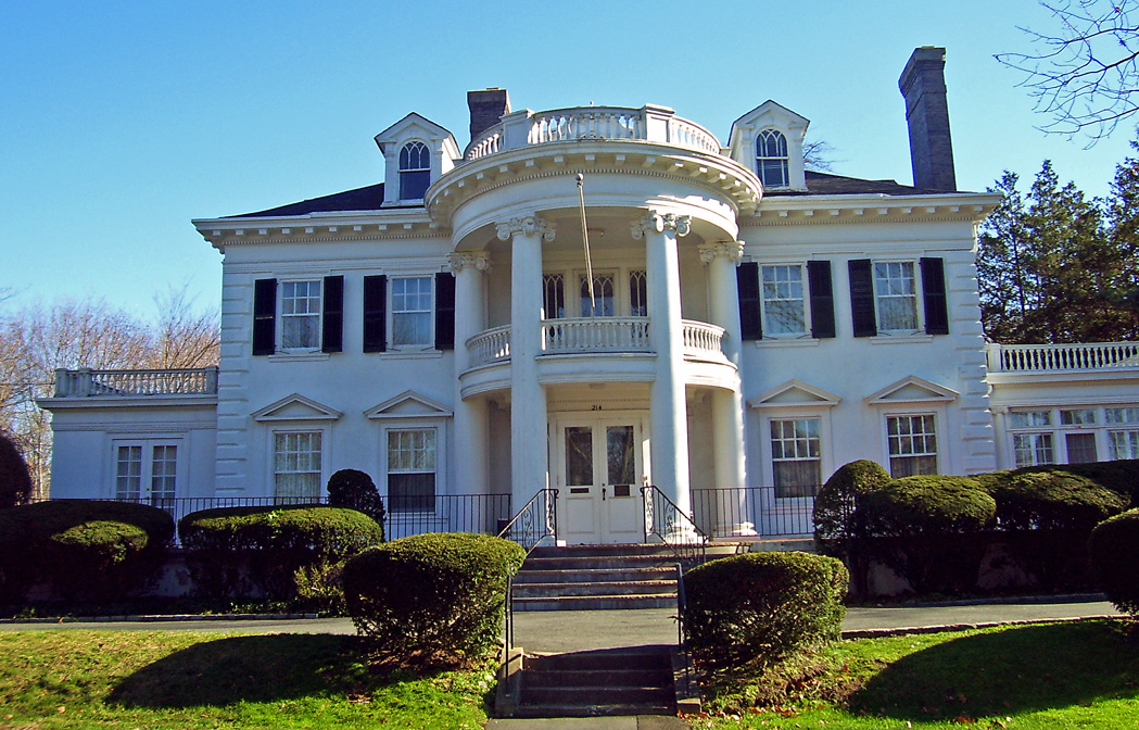 Photographed by Daniel Case 2006-11-25